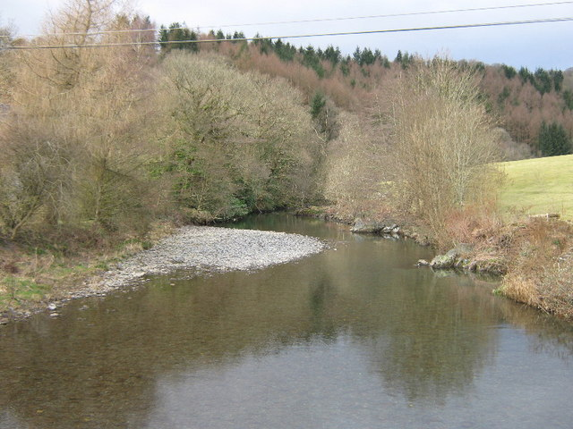 Afon Dulas Looking upstream from Pont Felin-y-ffridd.